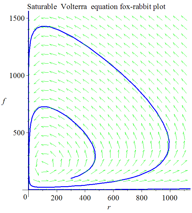 Saturable Volterra dfield plot